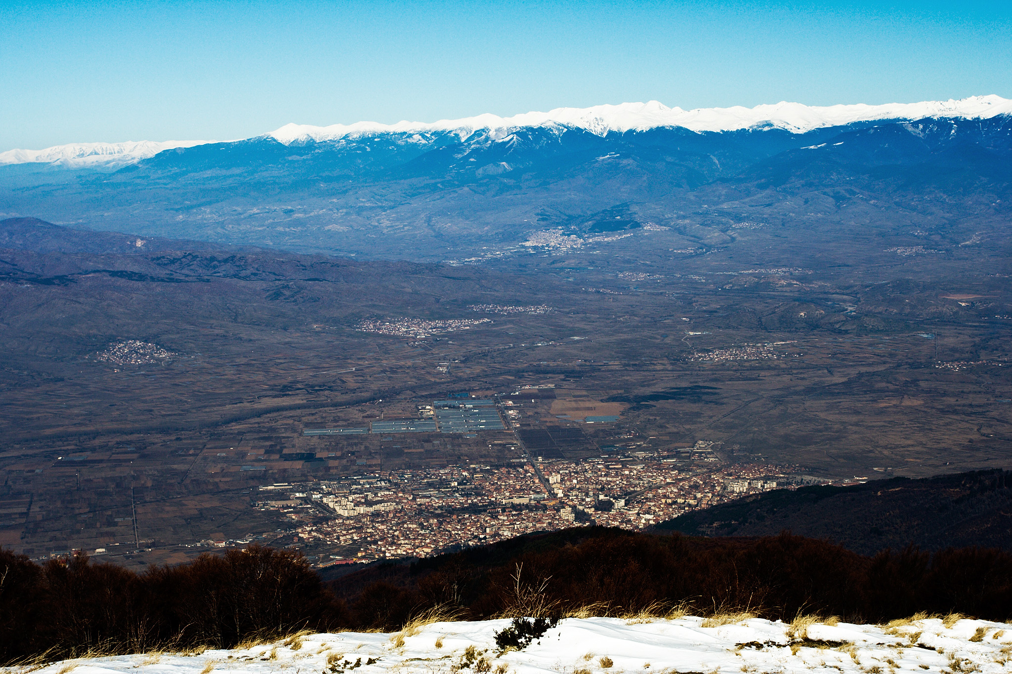 City of Petrich as seen from Belasitsa Mountain, SW Bulgaria